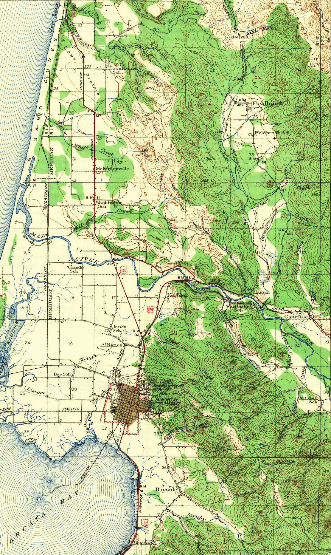 1854 the Union Wharf and Plank Walk Company built a pier into Humboldt Bay near Arcata to load lumber schooners. The wooden rails overlain with strap iron laid on that walkway were built to an unusual narrow gauge of 3 ft 9 1⁄2 in apart. A year later, 2 miles (3.2 km) of track had been laid leading up to the wharf. A horse drew the cars across the narrow gauge rail tracks. This portion was the beginning of the line.